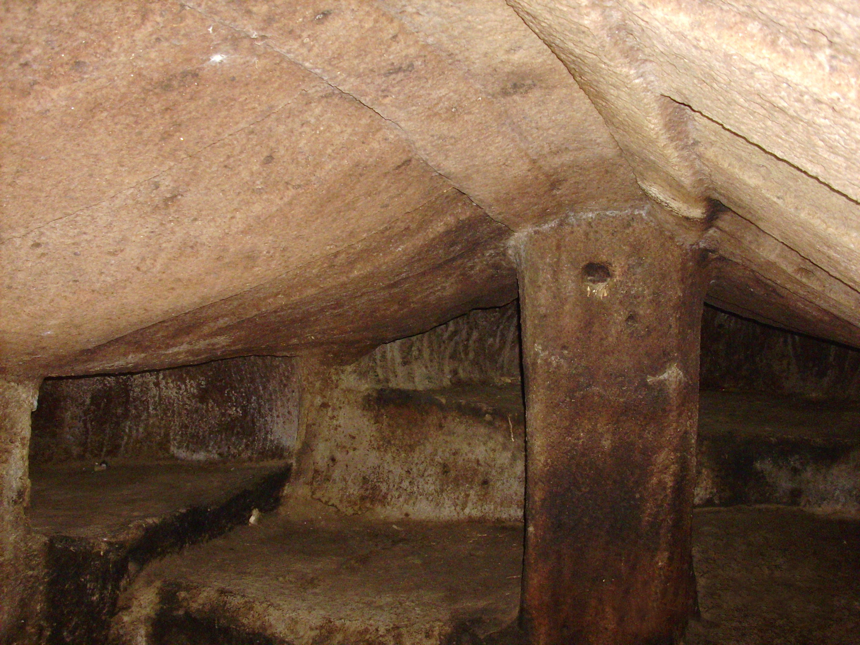 Prehistoric complex of Sant'Andrea Priu - Sardinia